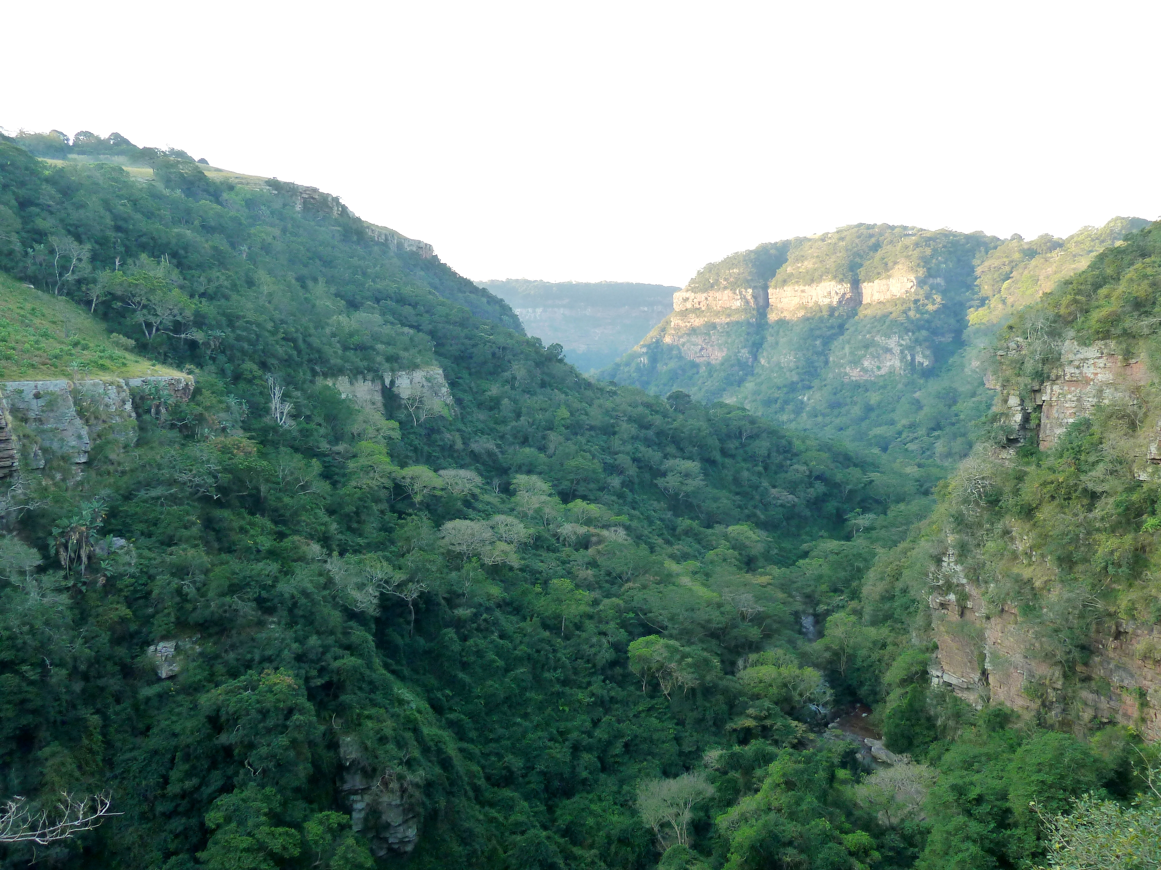 Molweni river valley at dusk, flanked by sandstone cliffs, in the Krantzkloof Nature Reserve in Kloof, KwaZulu-Natal, South Africa. The Molweni is a southern tributary of the Umgeni river.